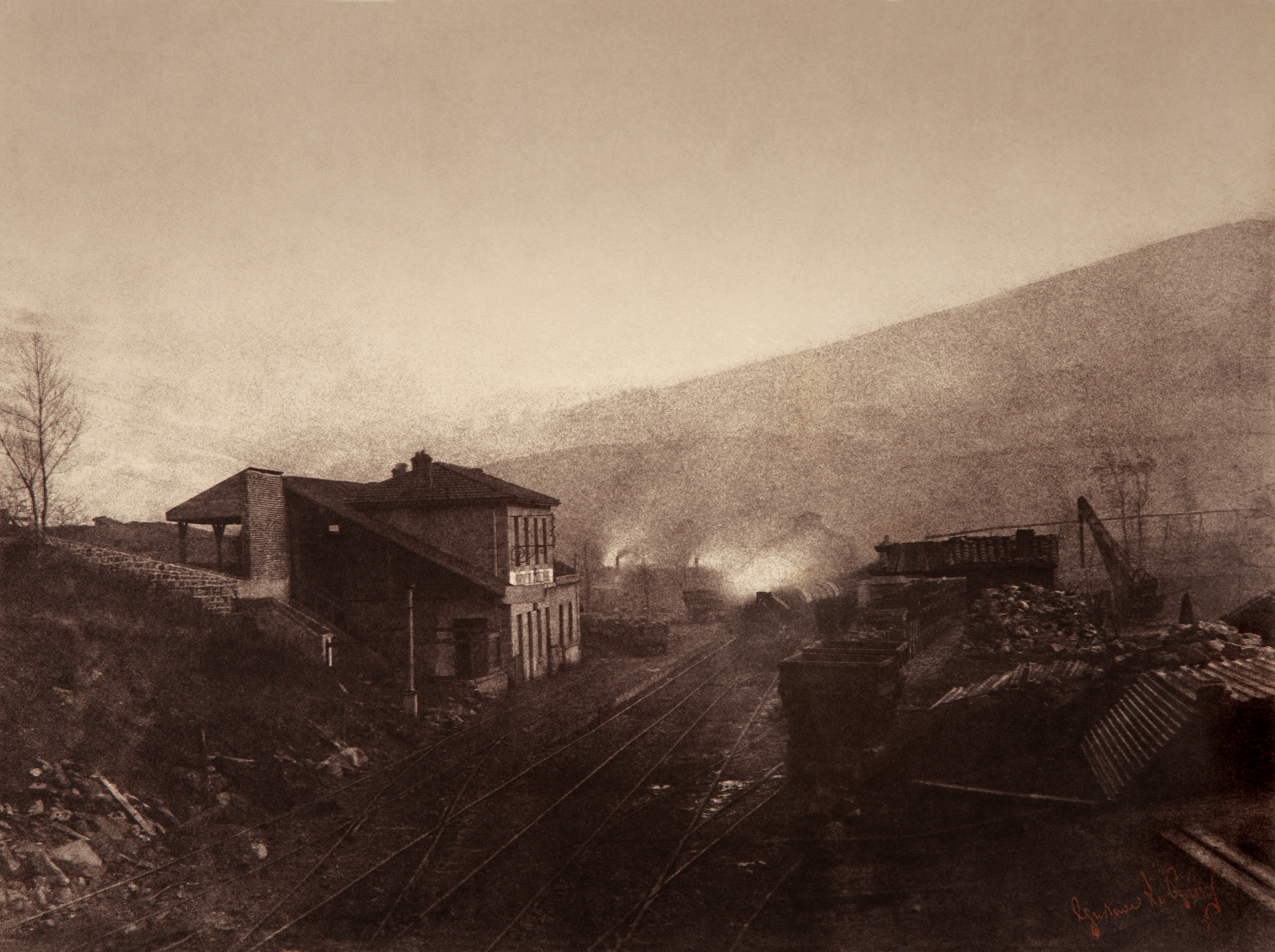 Train station with train and coal depot. Signed "Gustave Le Gray".